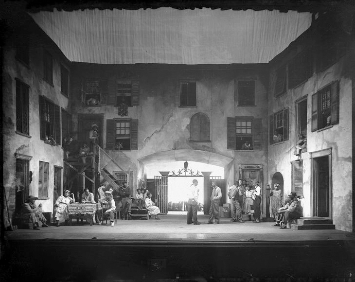 Photograph of the Catfish Row setting from the original Broadway production of Porgy (1927)